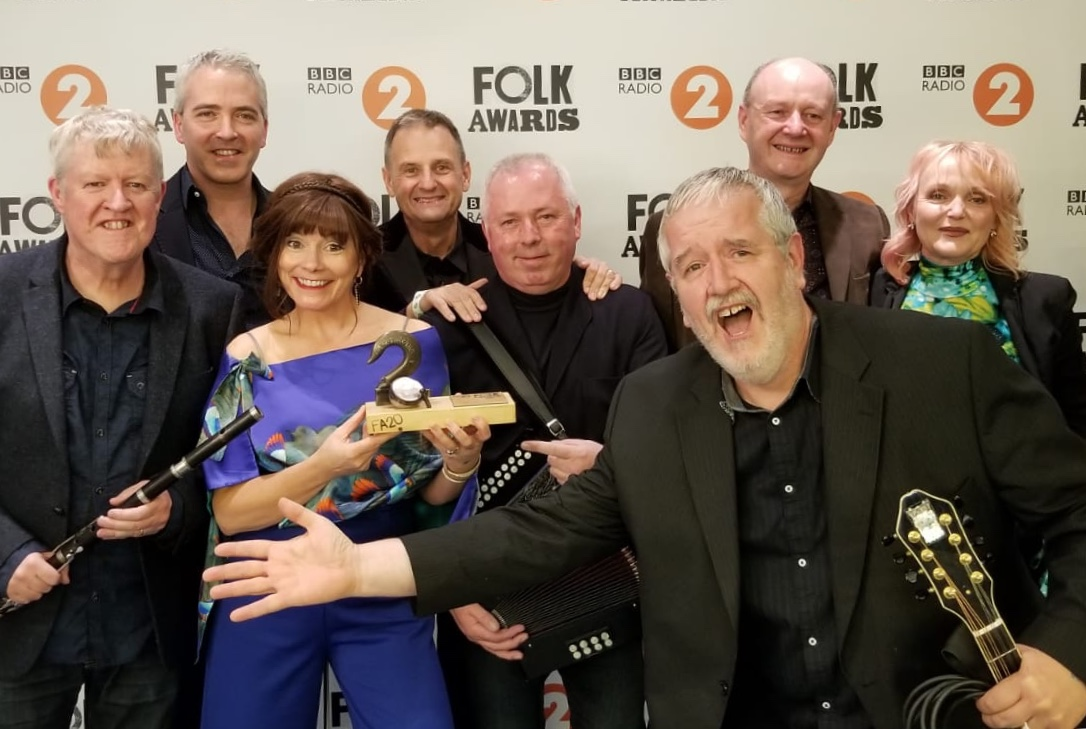 Dervish their BBC Lifetime Achievement Award 2019